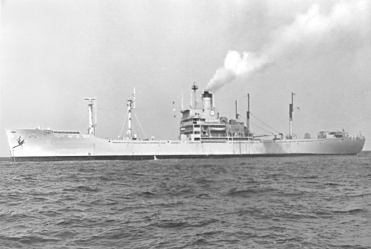 USNS Dutton (T-AGS-22) underway, date and location unknown. US Navy photo